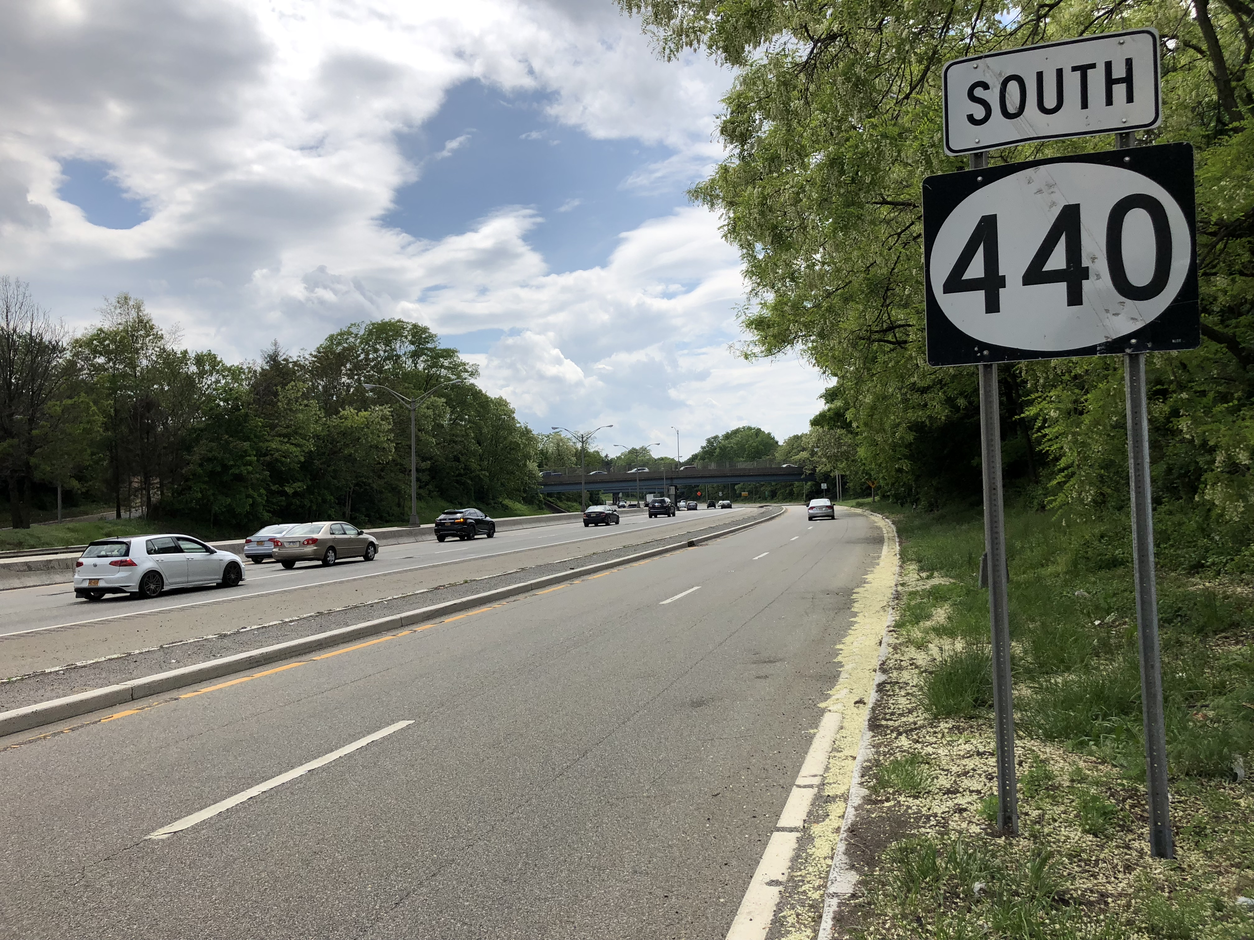 View south along New Jersey State Route 440 (Middlesex Freeway) just south of the interchange with New Jersey State Route 35 and New Jersey State Route 184 in Perth Amboy, Middlesex County, New Jersey